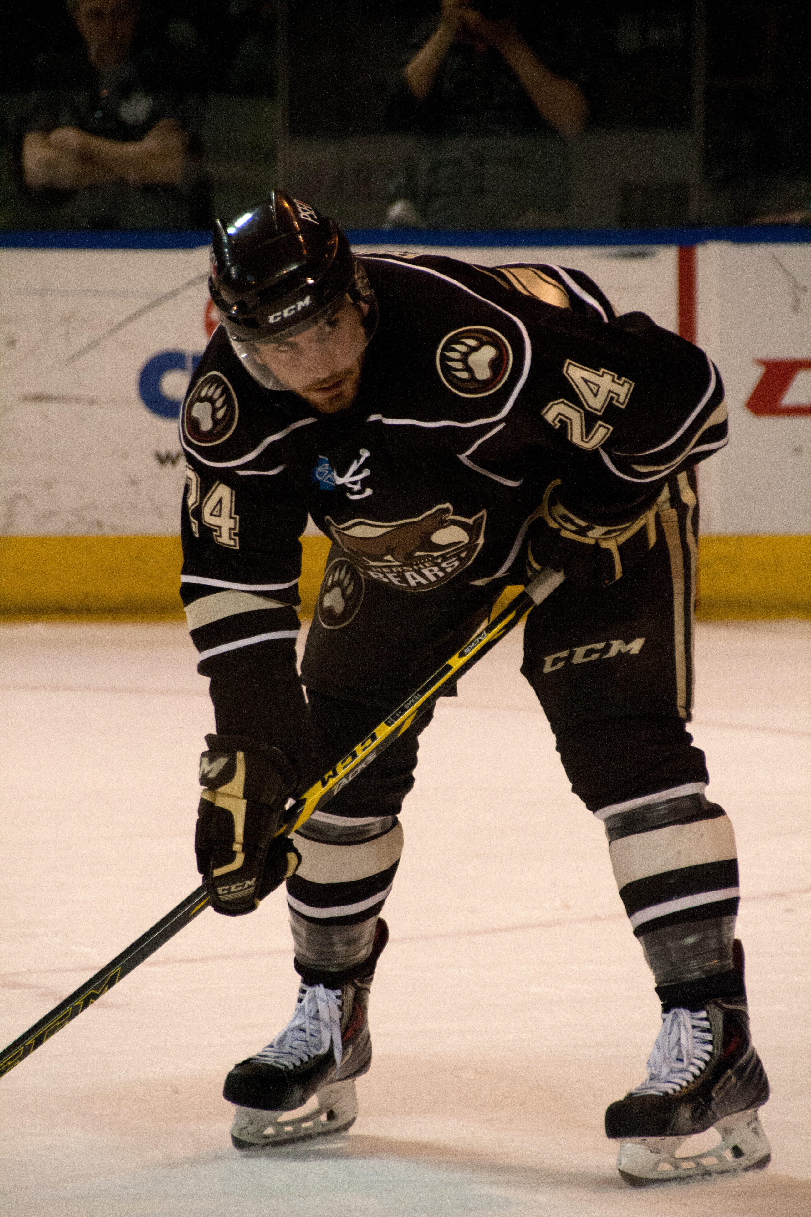 Chris Brown with the Hershey Bears (2015)